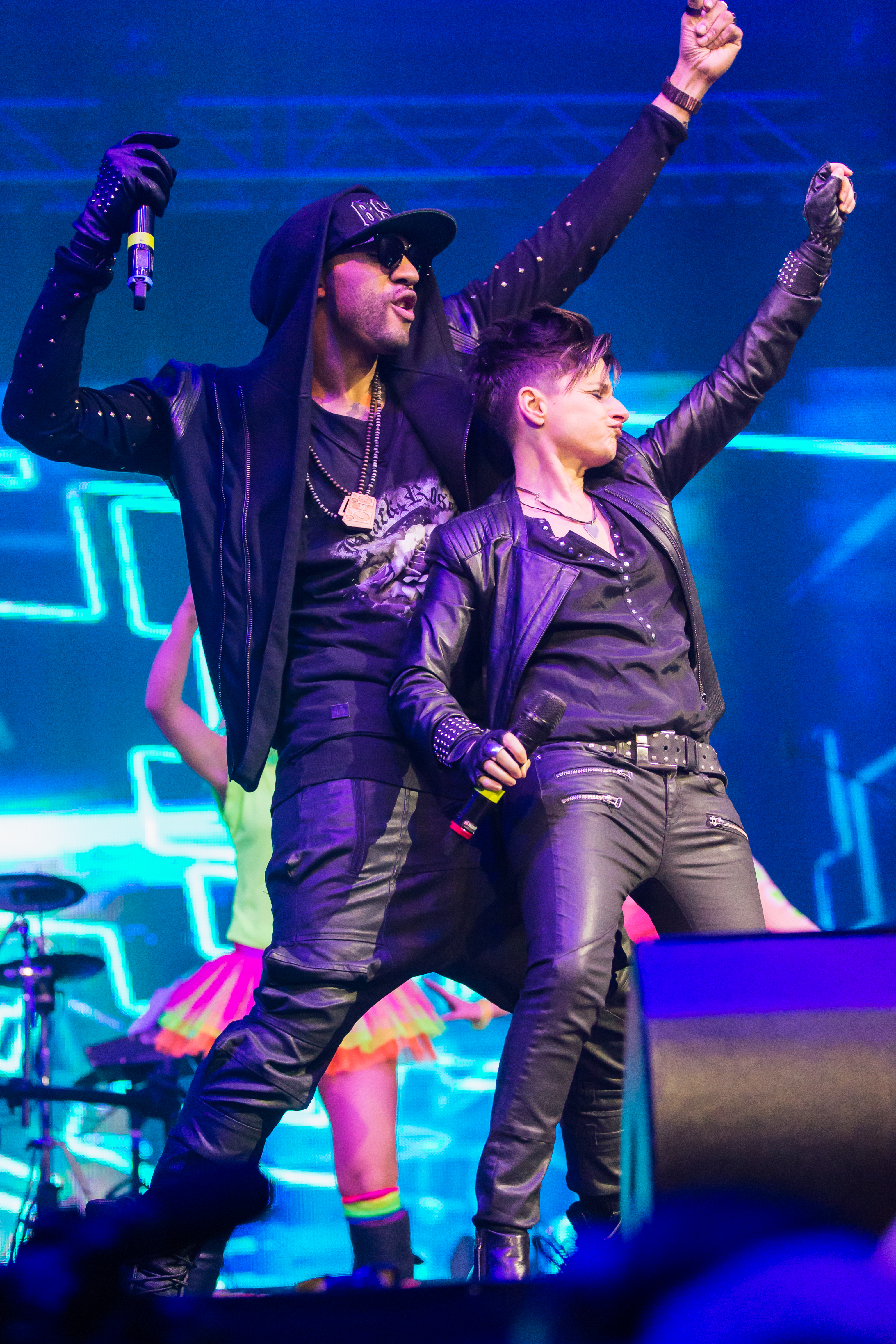 sunshine live "Die 90er - Live On Stage" Maimarkthalle Mannheim DJ Falk, Magic Affair, Captain Hollywood Project, Haddaway, Masterboy, 2 Unlimited, Marusha, Charly Lownoise